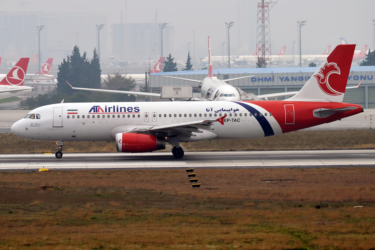 ATA Airlines, EP-TAC, Airbus A320-231